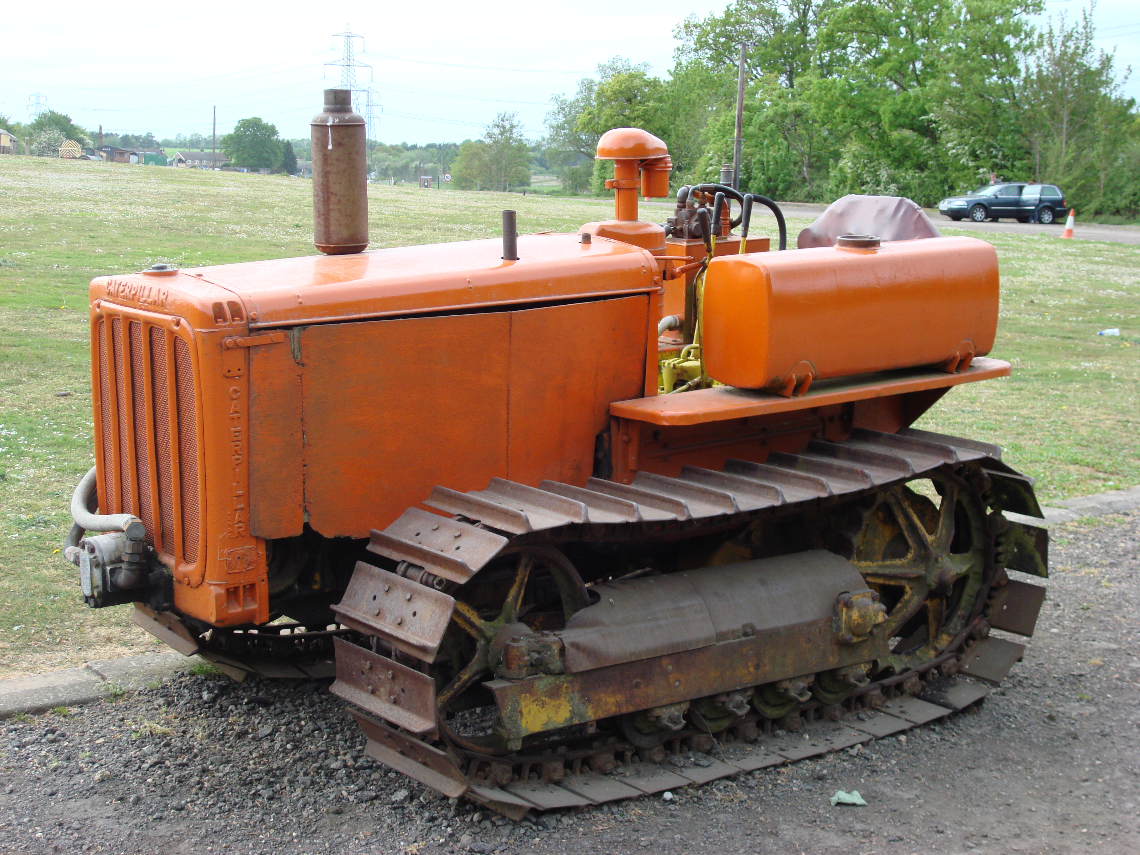 Small Caterpillar D2 tractor at Colne Valley Railway, Essex, England